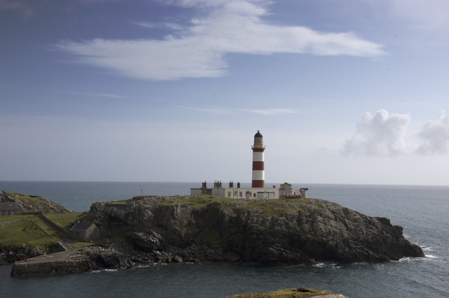 Eilean Glas lighthouse, Scalpay